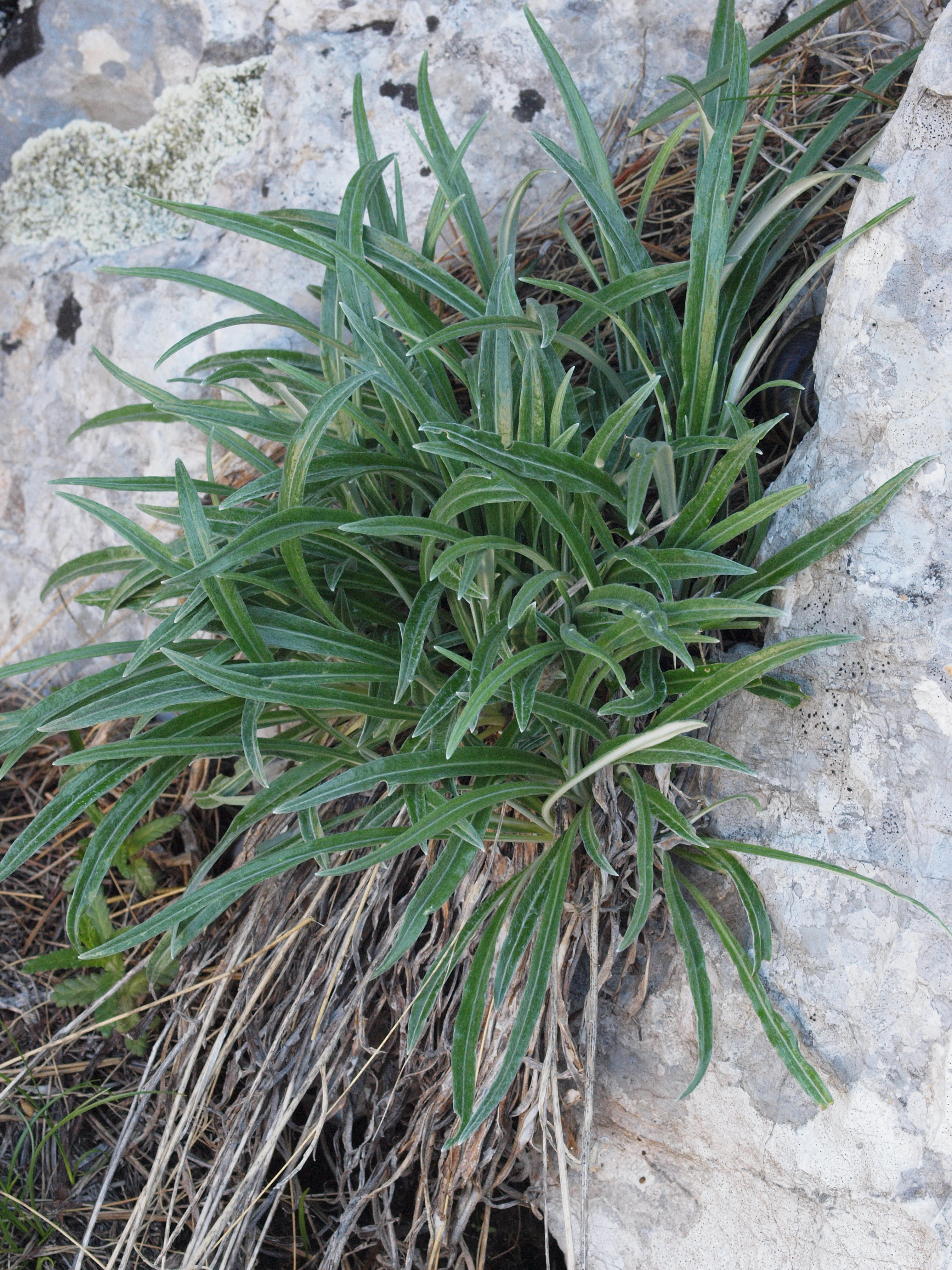 Tertiary relict Amphoricarpos neumayerii, Orjen Montenegro